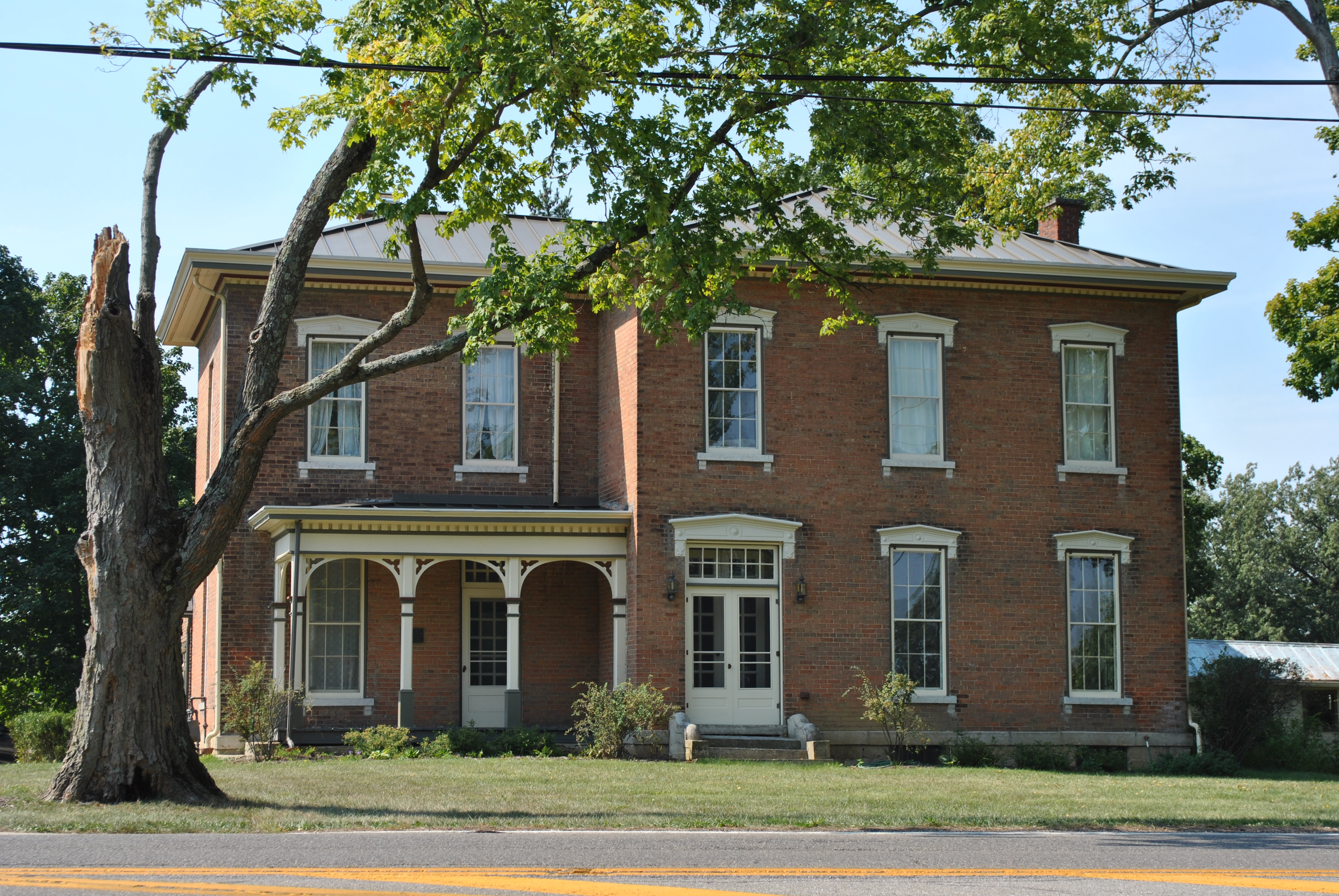 located in Dublin, Ohio and listed on the NRHP